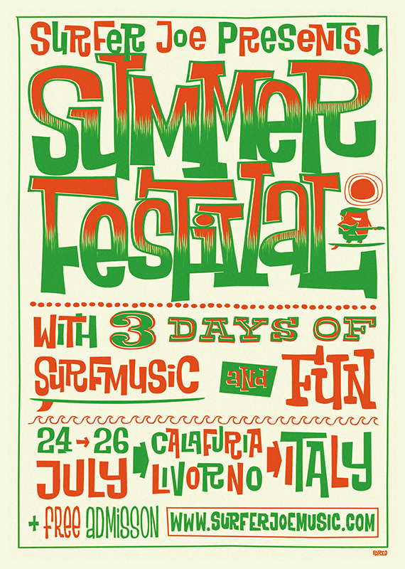 Poster of Surfer Joe Summer Festival 2009 by Fred Lammers